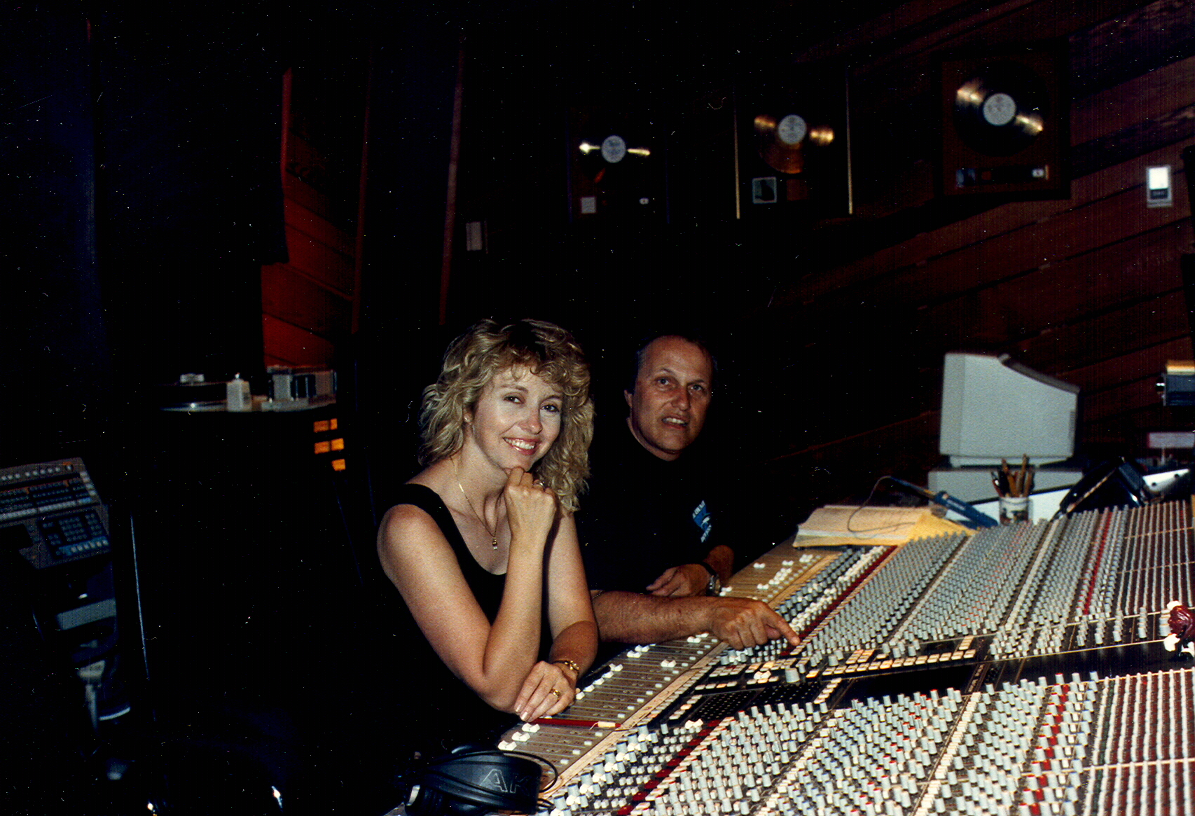 Taken at Lahaina Sound, Lahaina, Hawaii 1988